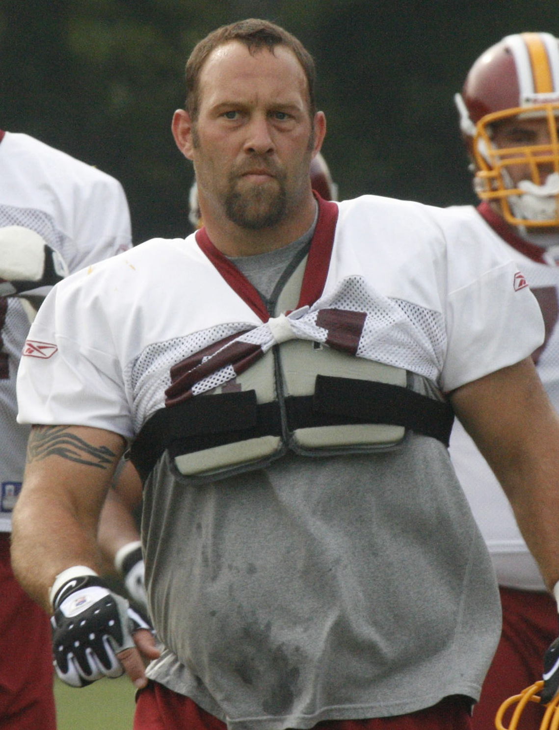 A picture of Washington Redskins C Casey Rabach during training camp